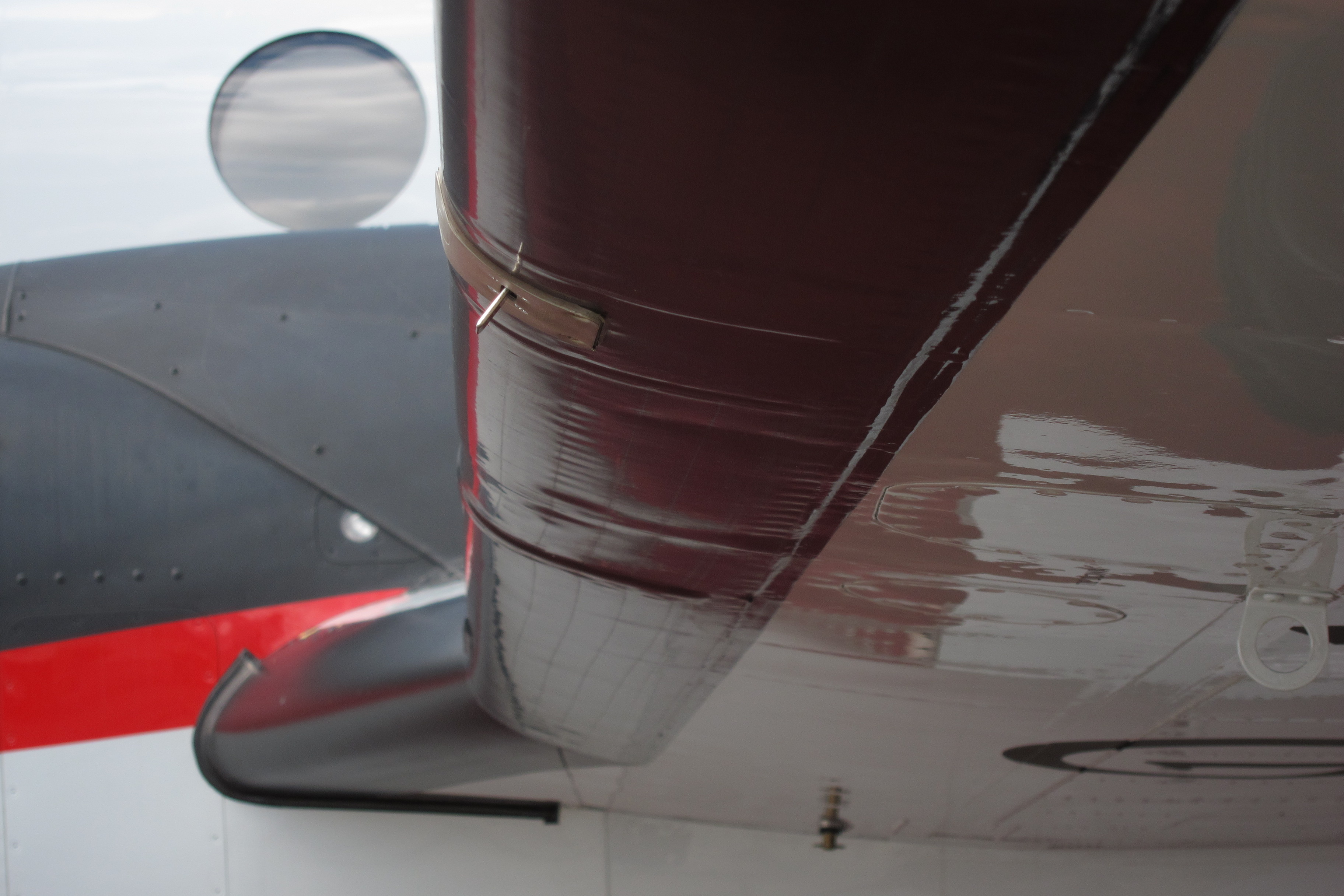 The leading edge of the left wing of a Beechcraft 350ER. The leading edge is covered with an inflatable rubber boot (to provide anti-icing protection) and an angle of attack probe (for onset stall warning).